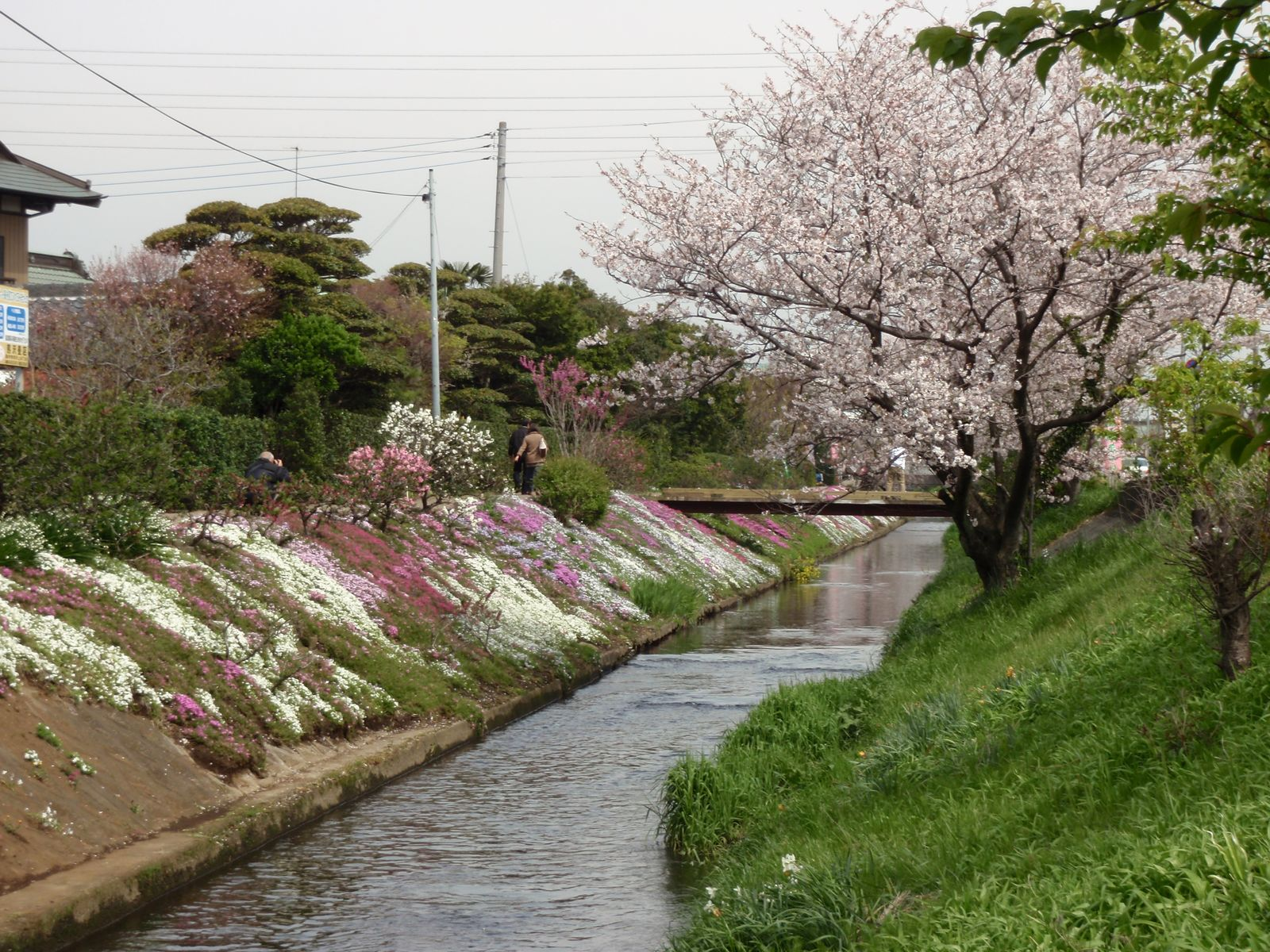 Phlox subulata at Shibuta River (Kanagawa Prefecture Isehara City)